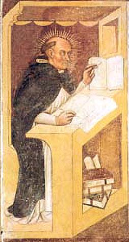 Master General of the Dominican Order (1238–1240)